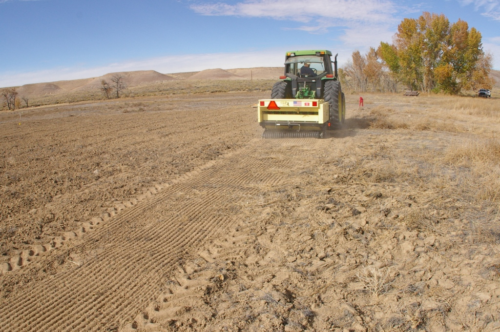 Broadcast seeding a grassland research plot in the fall on Ouray National Wildlife Refuge. Credit: Ryan Mollnow / USFWS